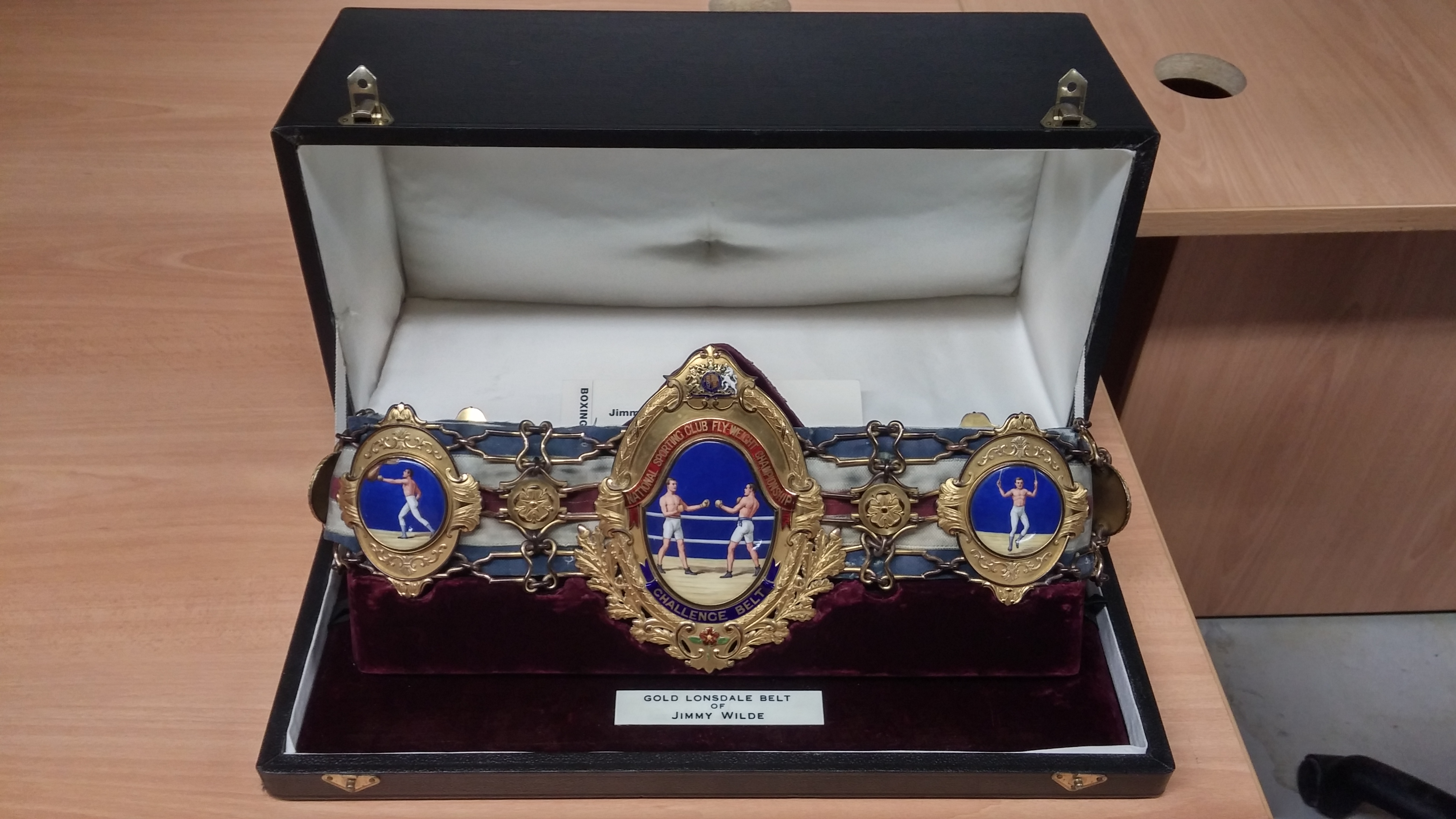 The gold Lonsdale belt of Jimmy Wilde